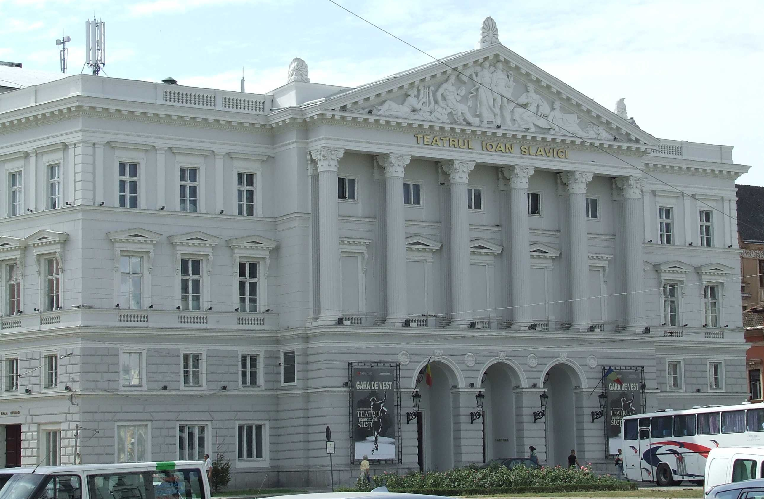 Classic Theatre "Ioan Slavici" in Arad, Romania